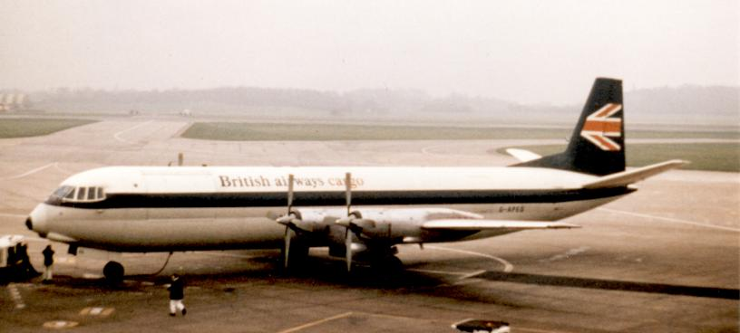 Vickers V953F Merchantman of British Airways Cargo at Manchester